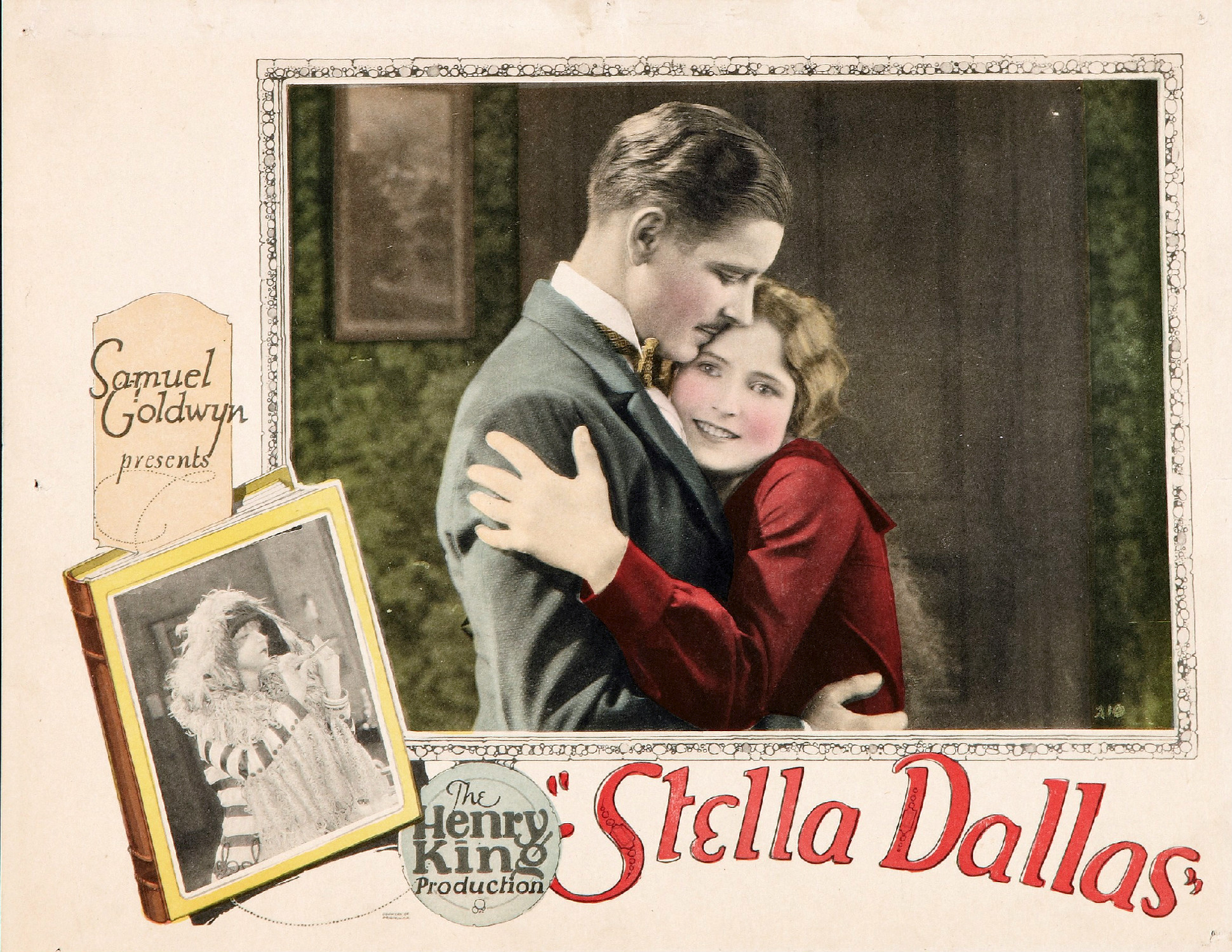 Ronald Colman and Lois Moran in Stella Dallas - lobby card.